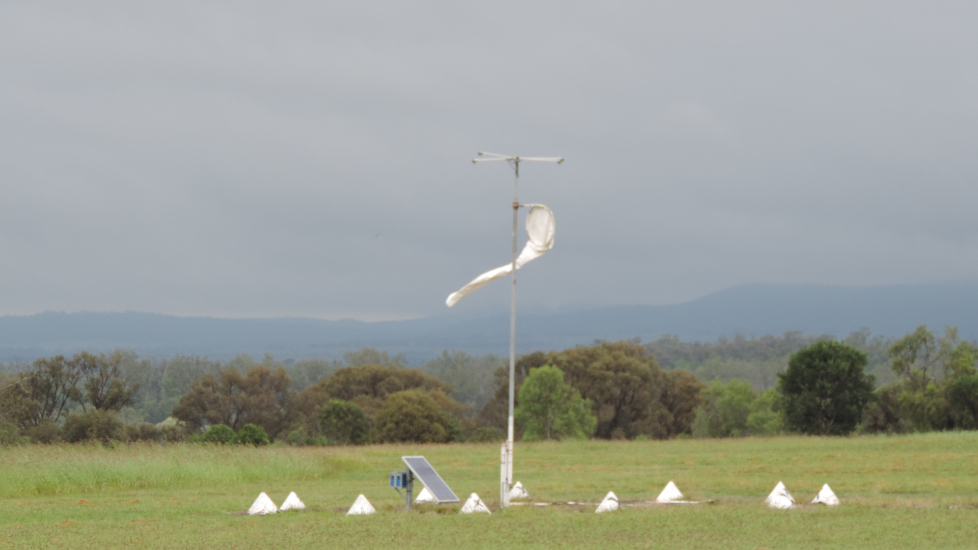 Windsock at Theodore Airport, 2014